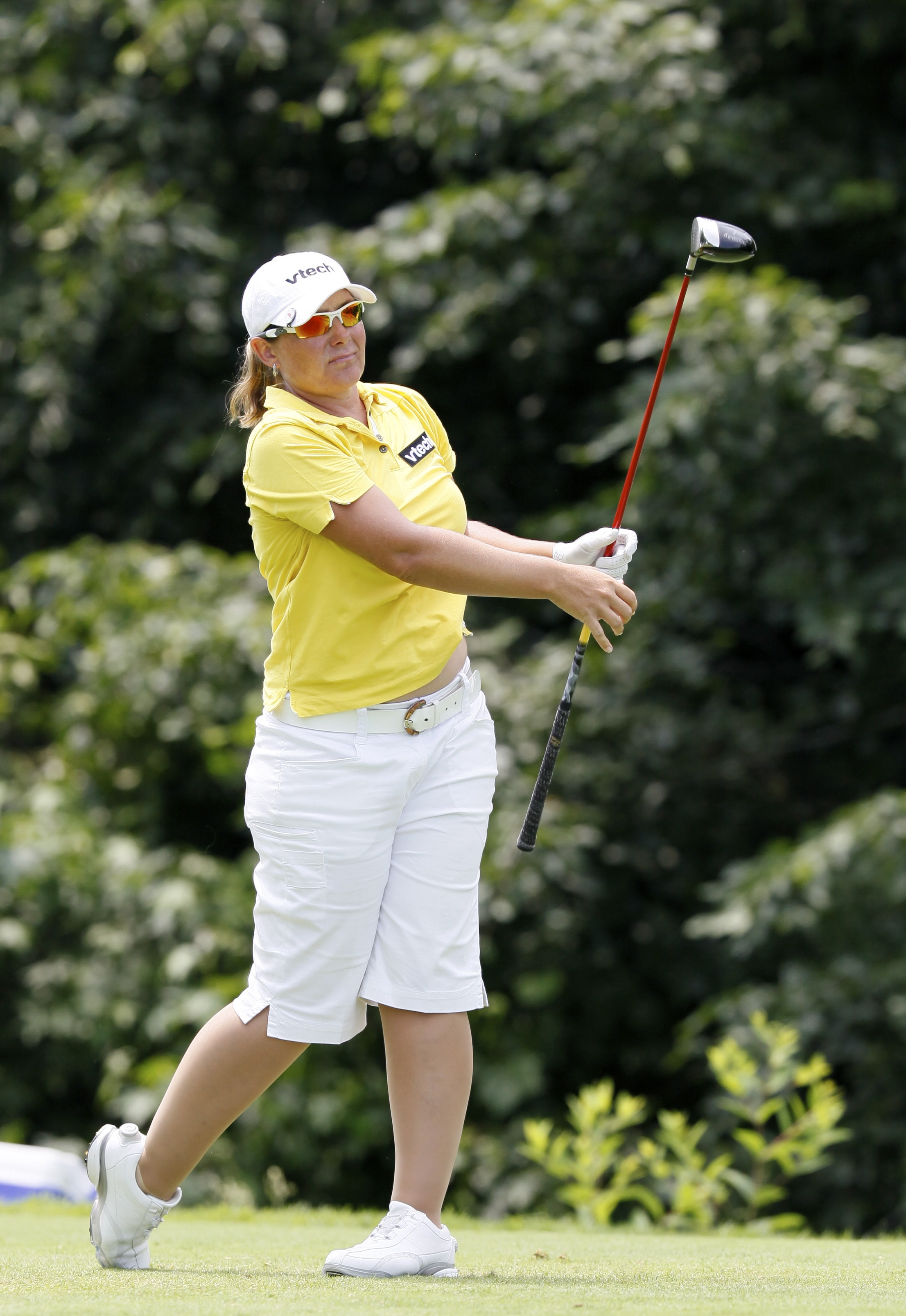 HAVRE DE GRACE, MD - JUNE 10: Karen Stupples (ENG) during practive round before 2009 LPGA Championship held at Bulle Rock Golf Course, on June 10, 2009 in Havre de Grace, Maryland. (Photo by Keith Allison)